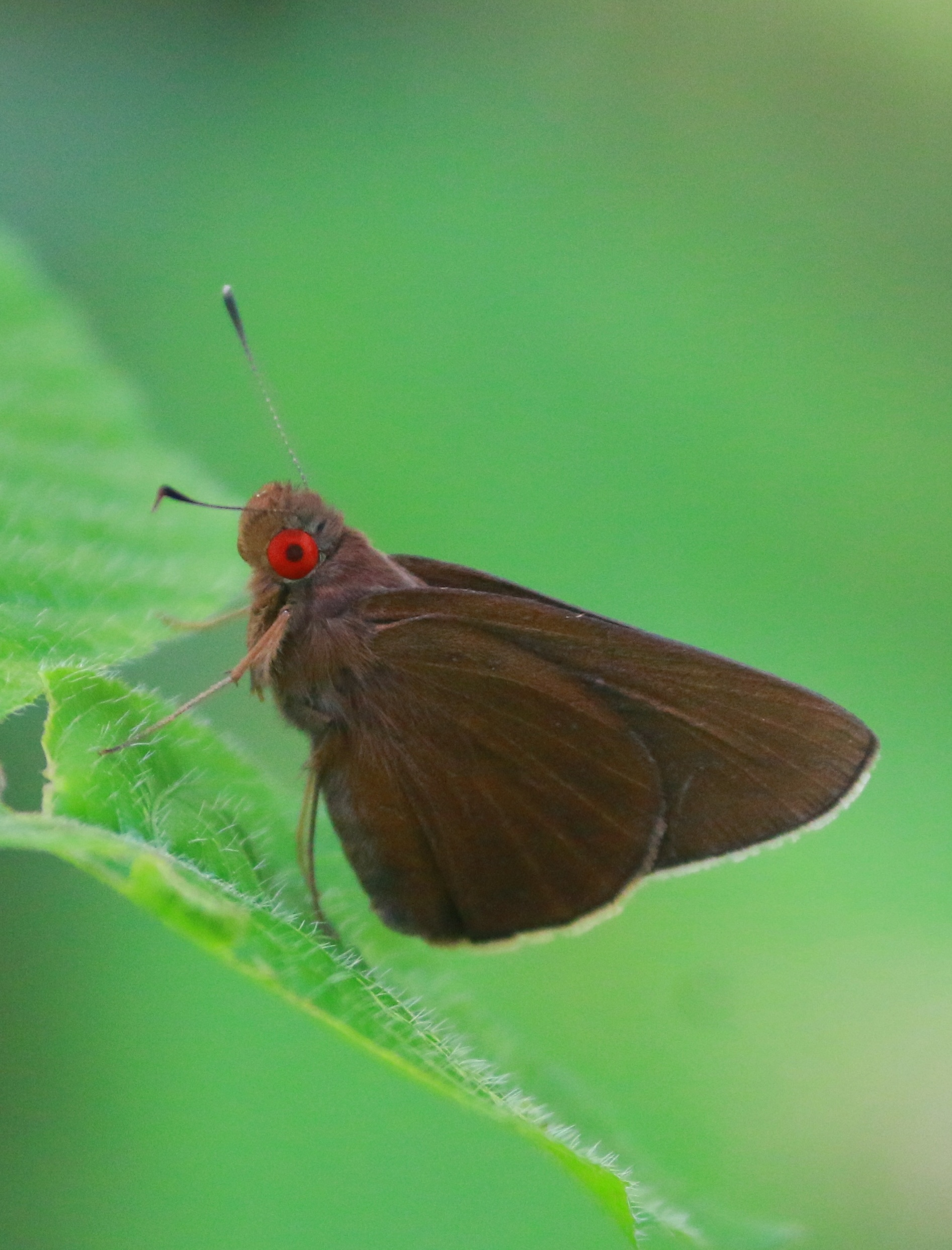 Red eye species butterfly